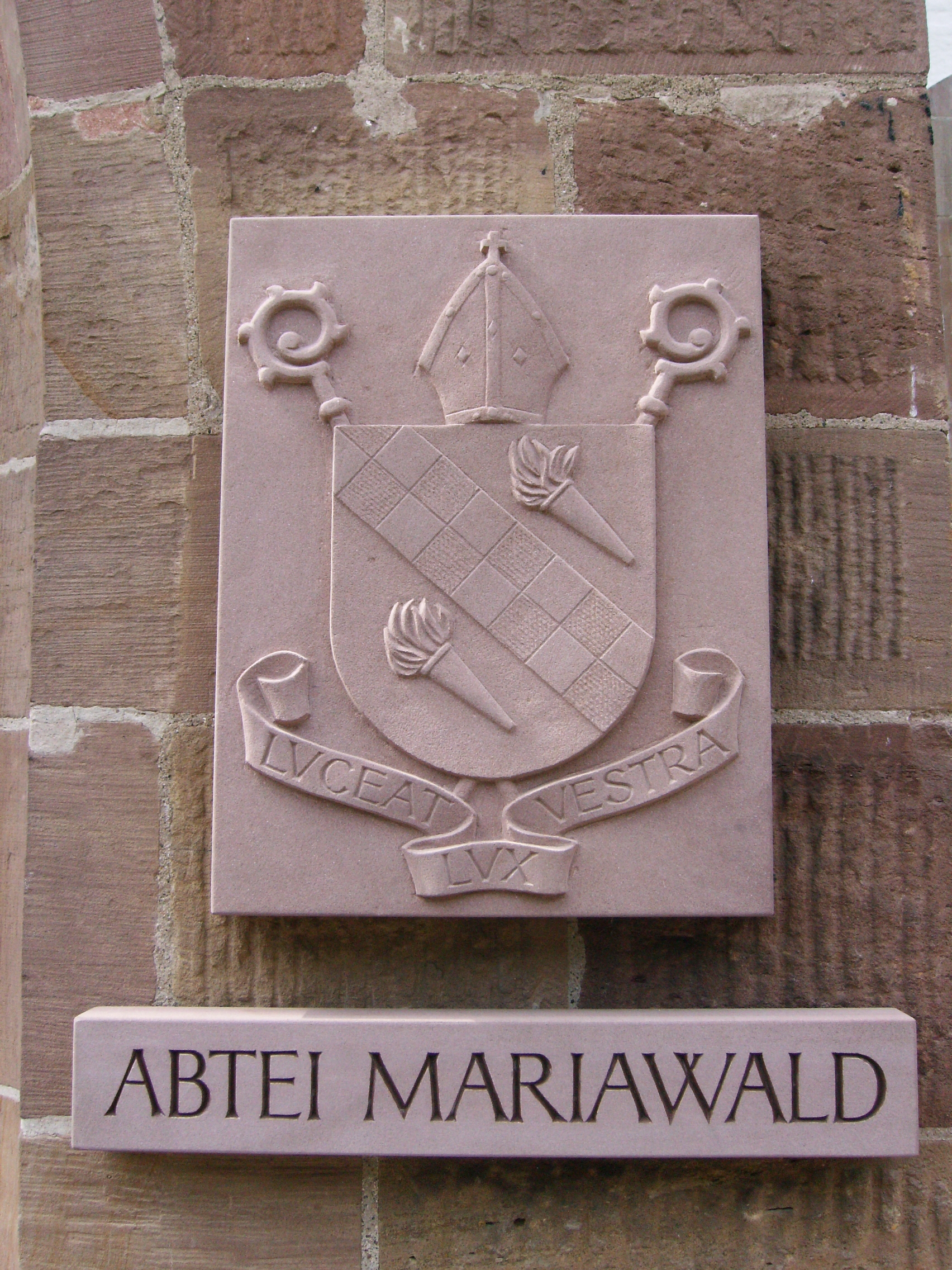 Coat of arms of Mariawald abbey, Heimbach, Germany.